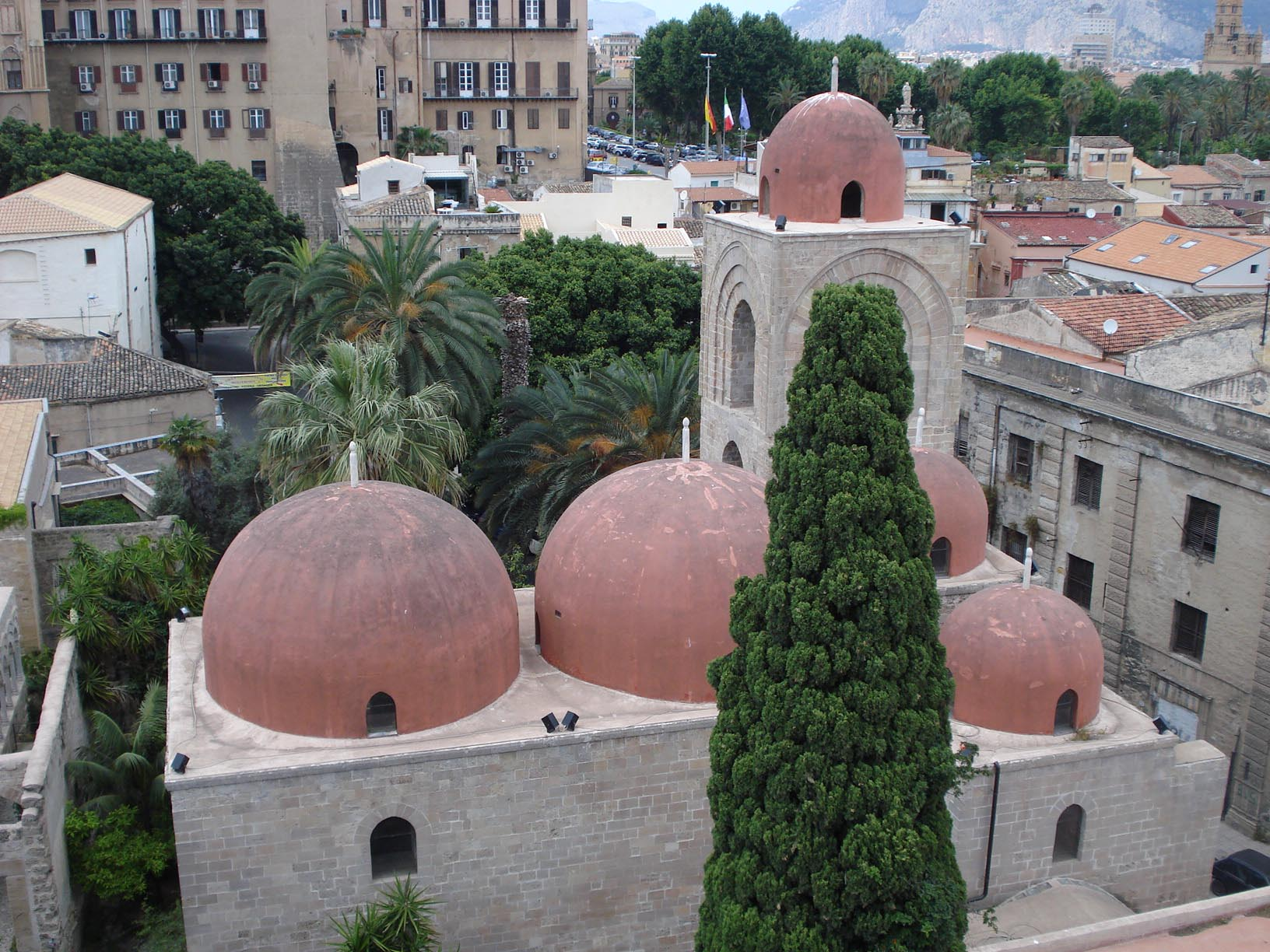 S Giovanni degli Eremiti - view fron S Giuseppe in Cafasso